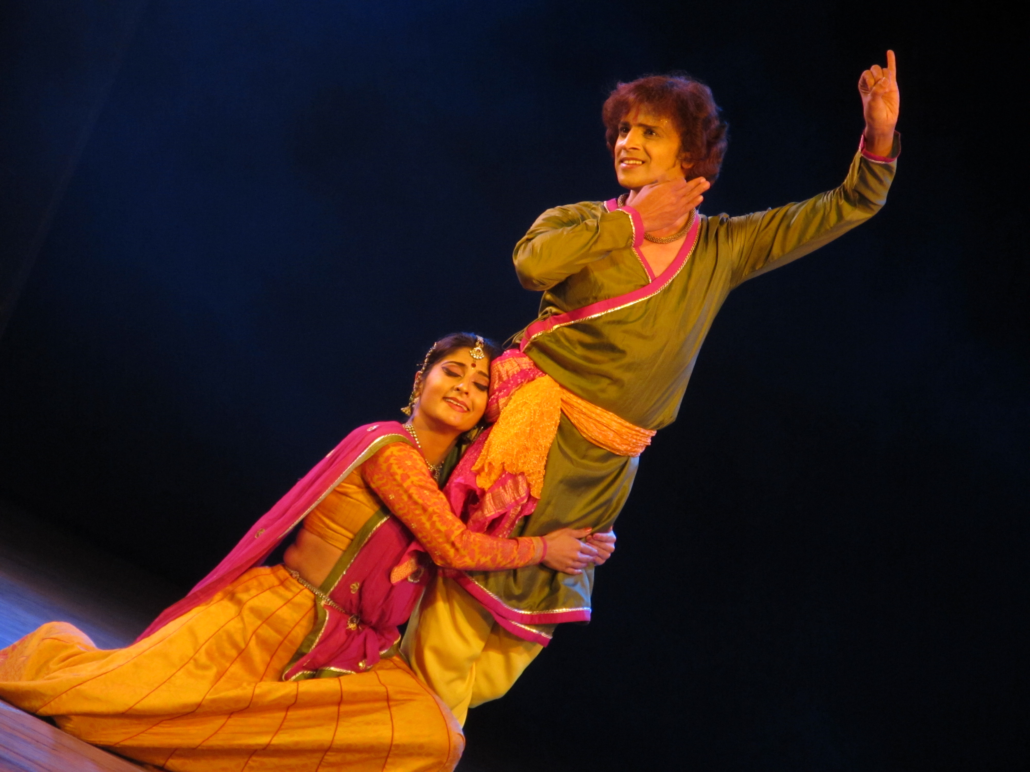 This Picture was taken at Maha Maya Festival(Prof. U. S. Krishna Rao Centenary Celebrations) where Nirupama & Rajendra was honoured with the title best dancing couple. They Gave a performance as well.